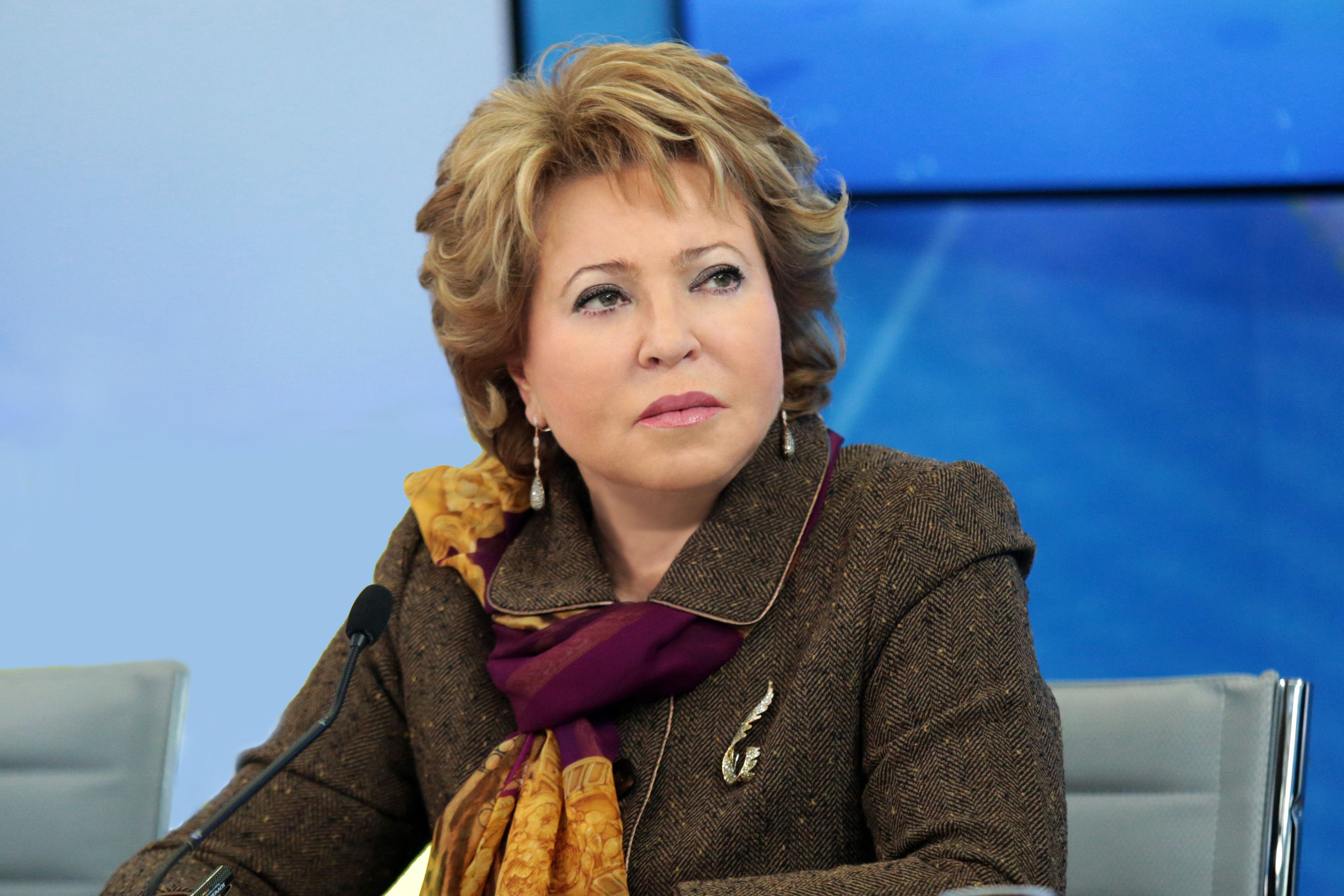 Valentina Matviyenko